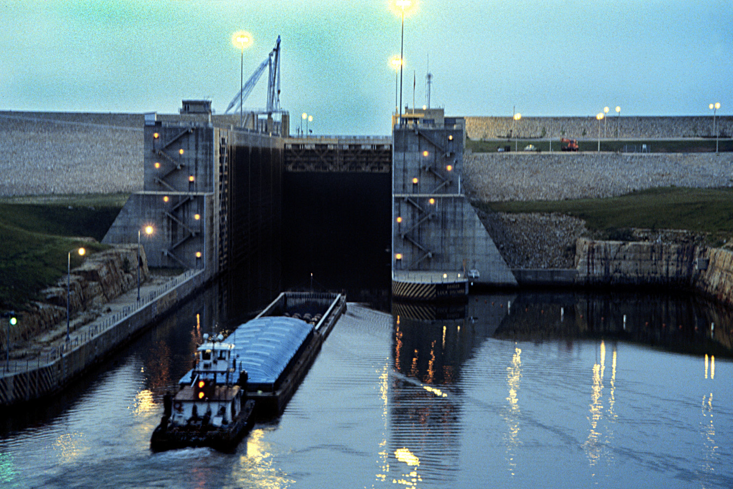 A tow entering the downstream side of the Jamie Whitten Lock and Dam on the Tennessee-Tombigbee Waterway in Tishomingo County, Mississippi, USA. When the tow exits the lock on the upstreams side, it will be in Bay Springs Lake. Coordinates: 34°31′22.48″N 88°19′25.03″W / 34.5229111°N 88.3236194°W